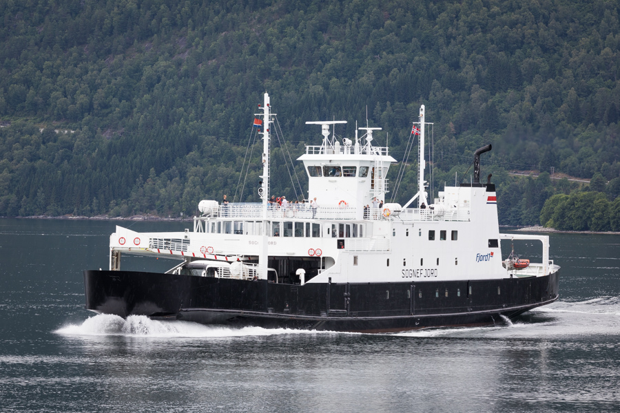 MF Sognefjord enroute between Lote and Anda in Nordjord.